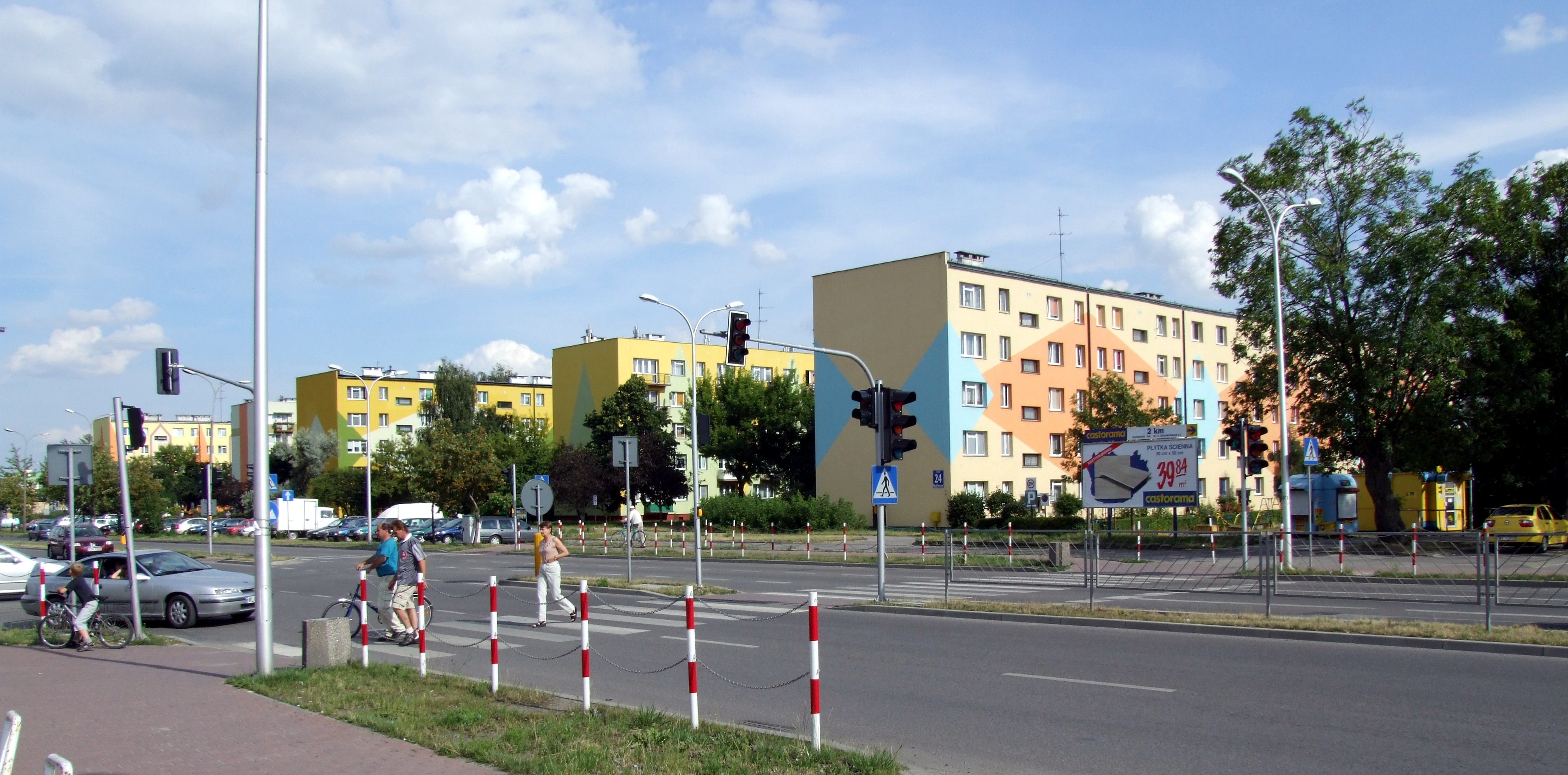 Blocks of flats in Słoneczne residential district in Ostrowiec Świętokrzyski.